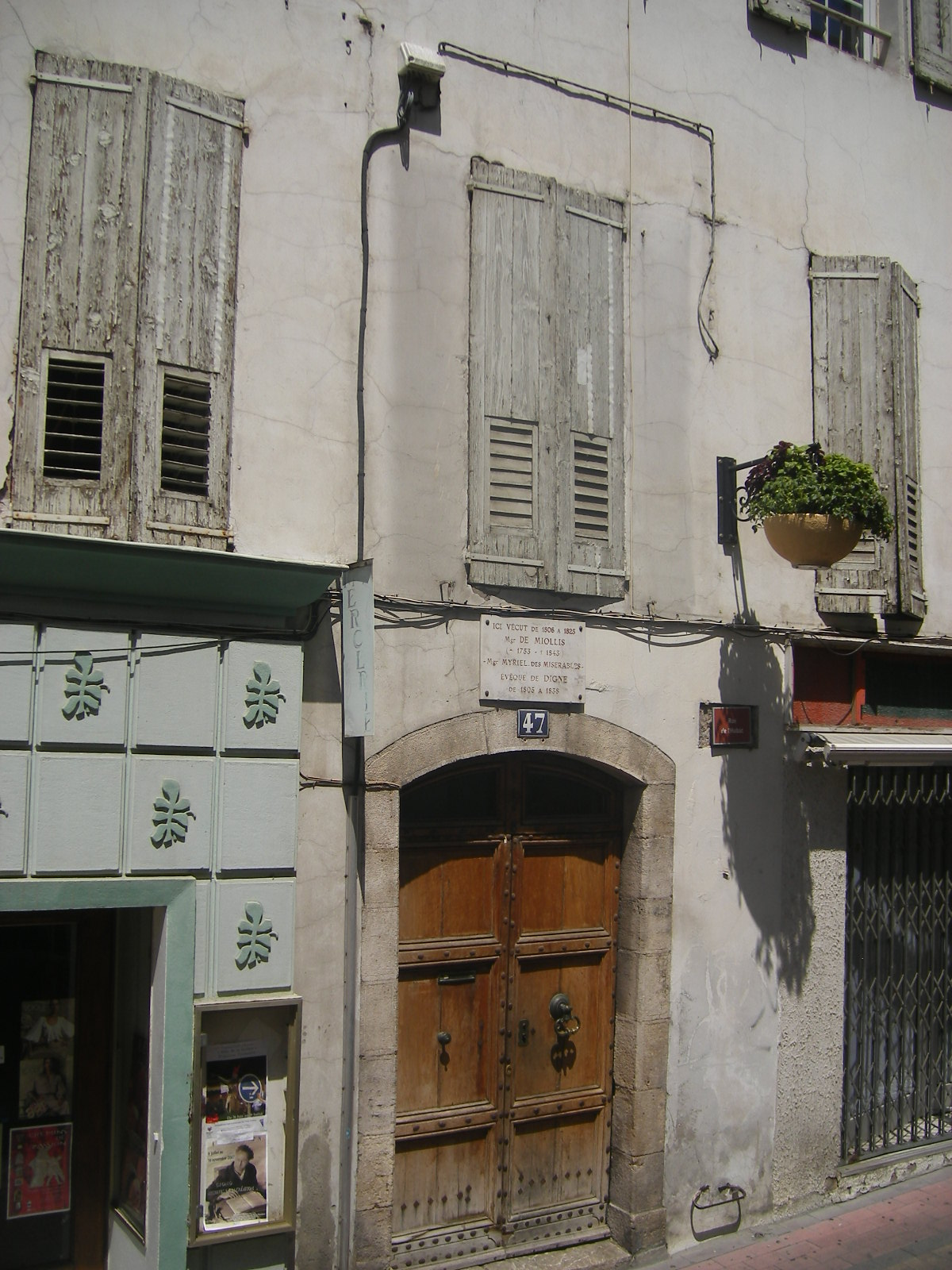 The house of Mgr. de Miollis (after him portrayed Victor Hugo in the Les Misérables bishop Myriel) in Digne-les-Bains